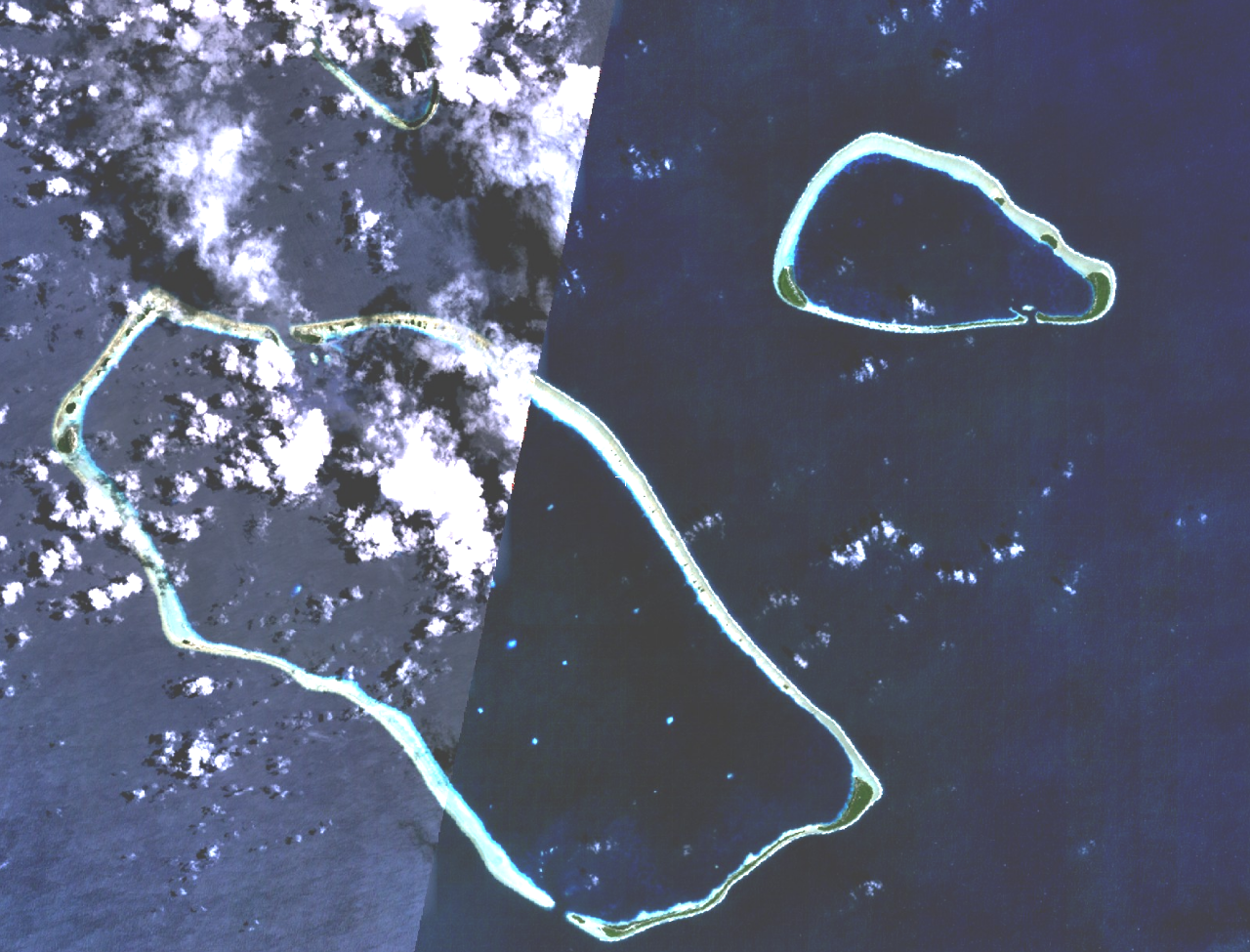 Mortlock Islands (Satawan, Lukunor and Etal Atolls), Chuuk State, Federated States of Micronesia, Caroline Islands, Pacific Ocean